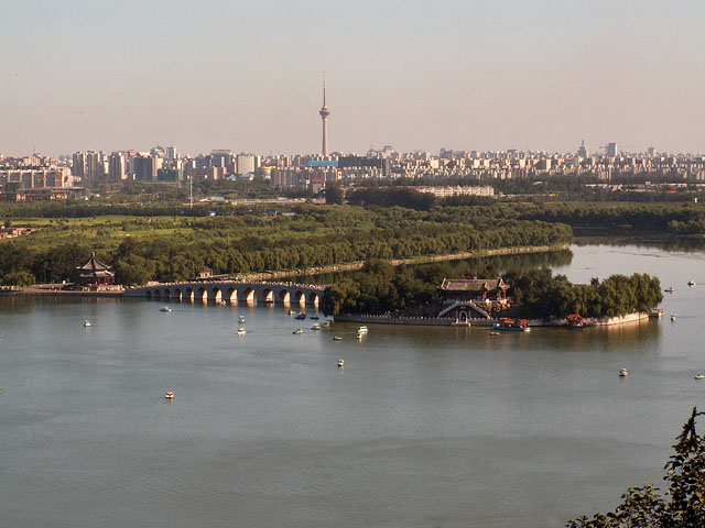 Summer Palace